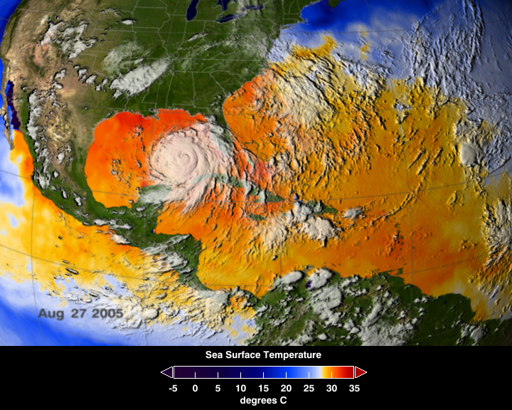 An average of actual sea surface temperatures (SSTs) for the Caribbean Sea and Atlantic Ocean, spanning August 25 to August 27, 2005. Every area in yellow, orange or red represents 82 degrees Fahrenheit or above. SSTs at or above 82 degrees will allow hurricanes to strengthen. The data came from the Advanced Microwave Scanning Radiometer (AMSR-E) instrument on NASA's Aqua satellite. Original image location at there is also an animation of the SSTs of that region between June and September at